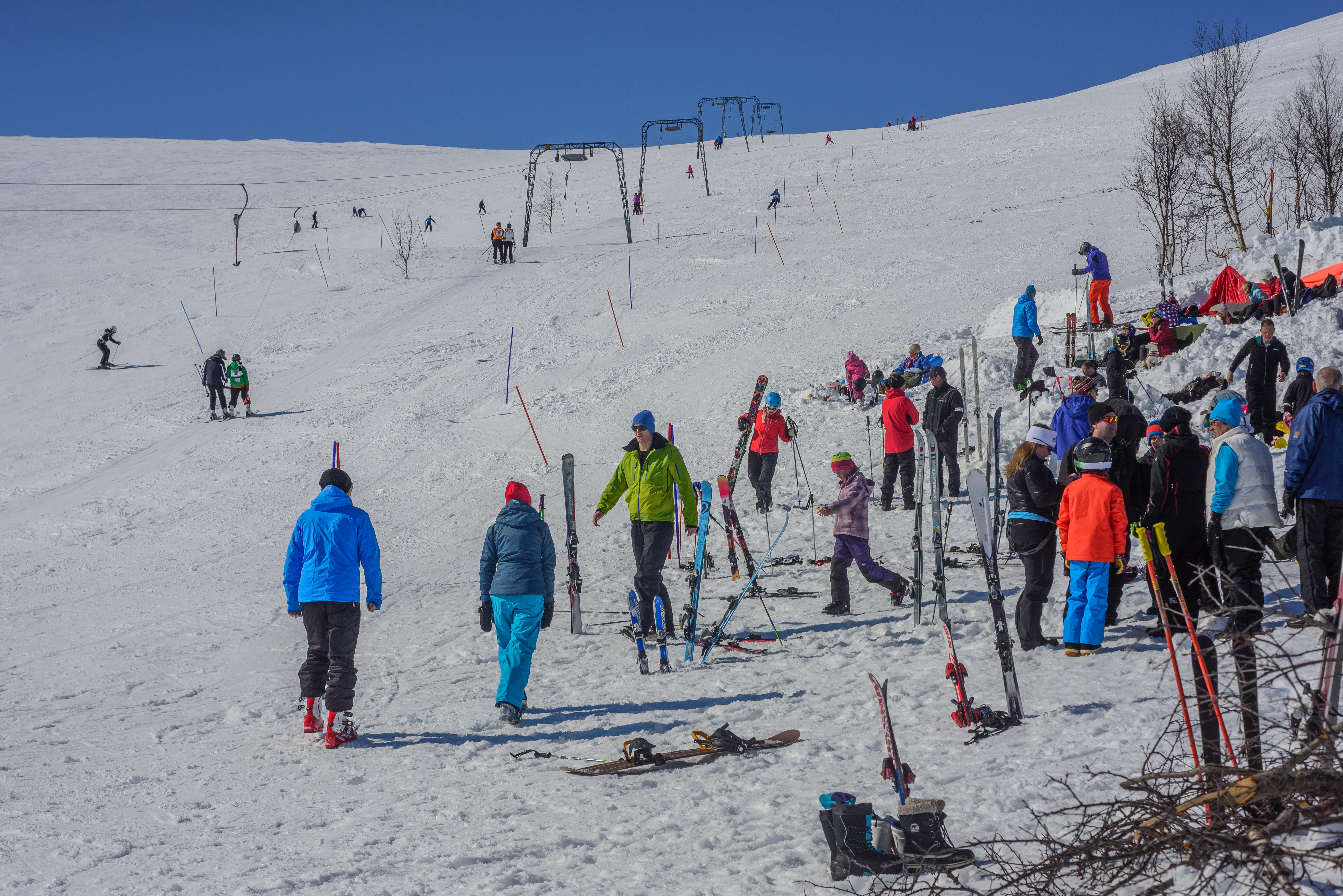 Fjälliften, a small ski lift in Ljungdalen (Berg municipality, Jämtland county).